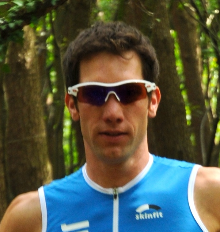 Triathlete Jim Thijs